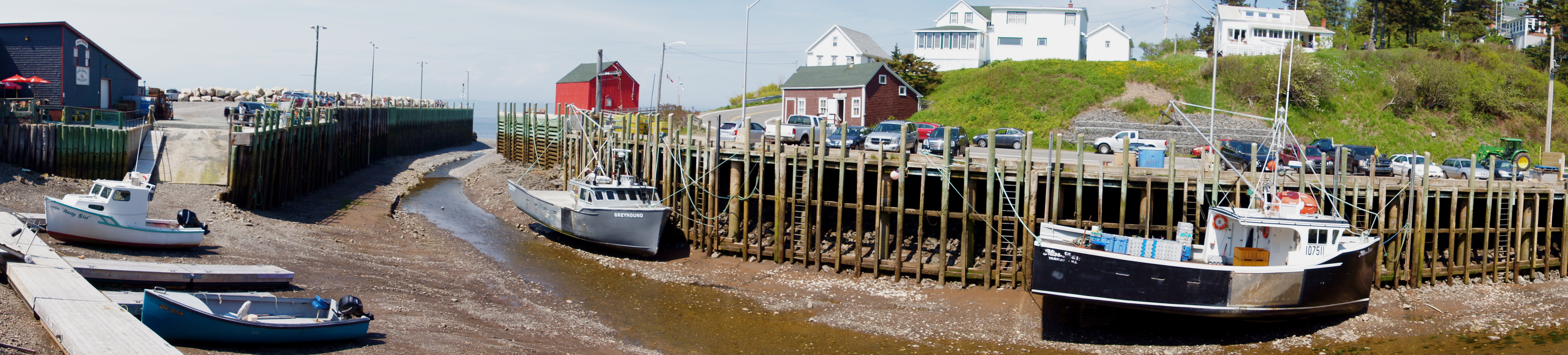 The fishing boats are completely aground at low tide along the rich fishing grounds of Fundy Bay, at Hall's Harbour, Nova Scotia.